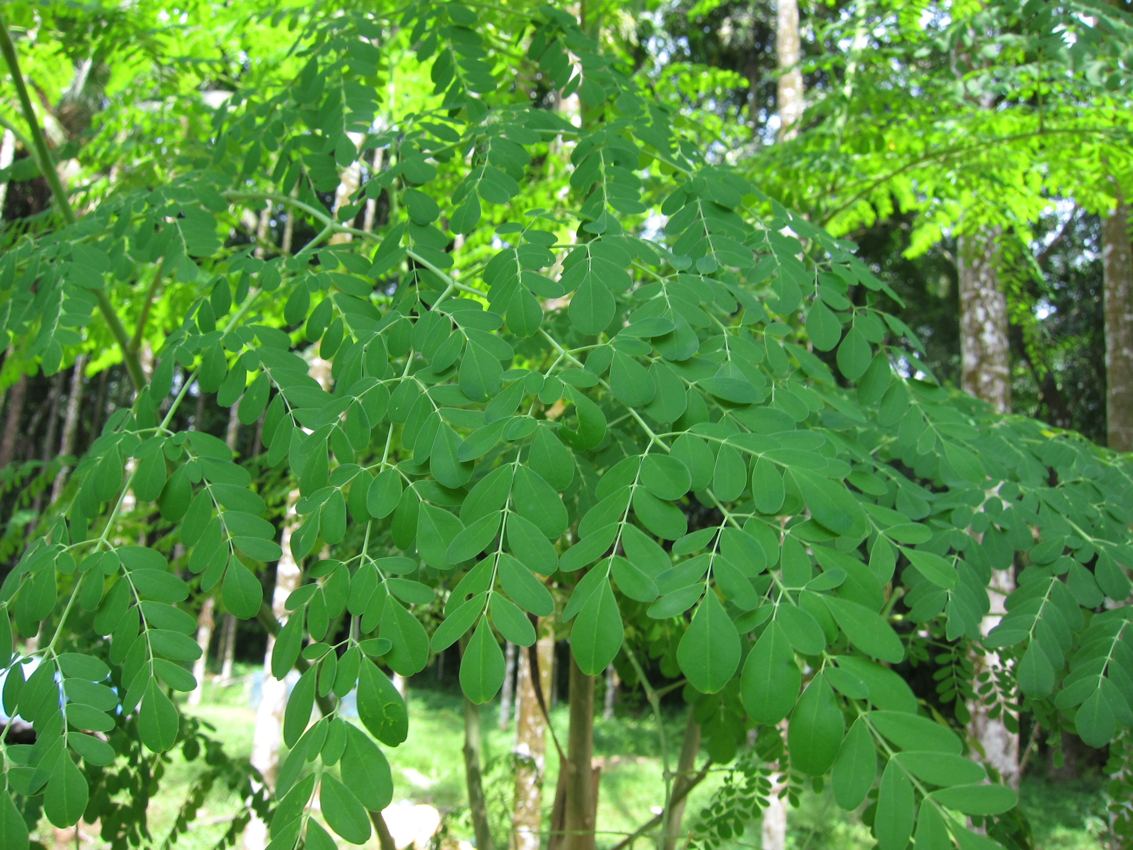 Moringa